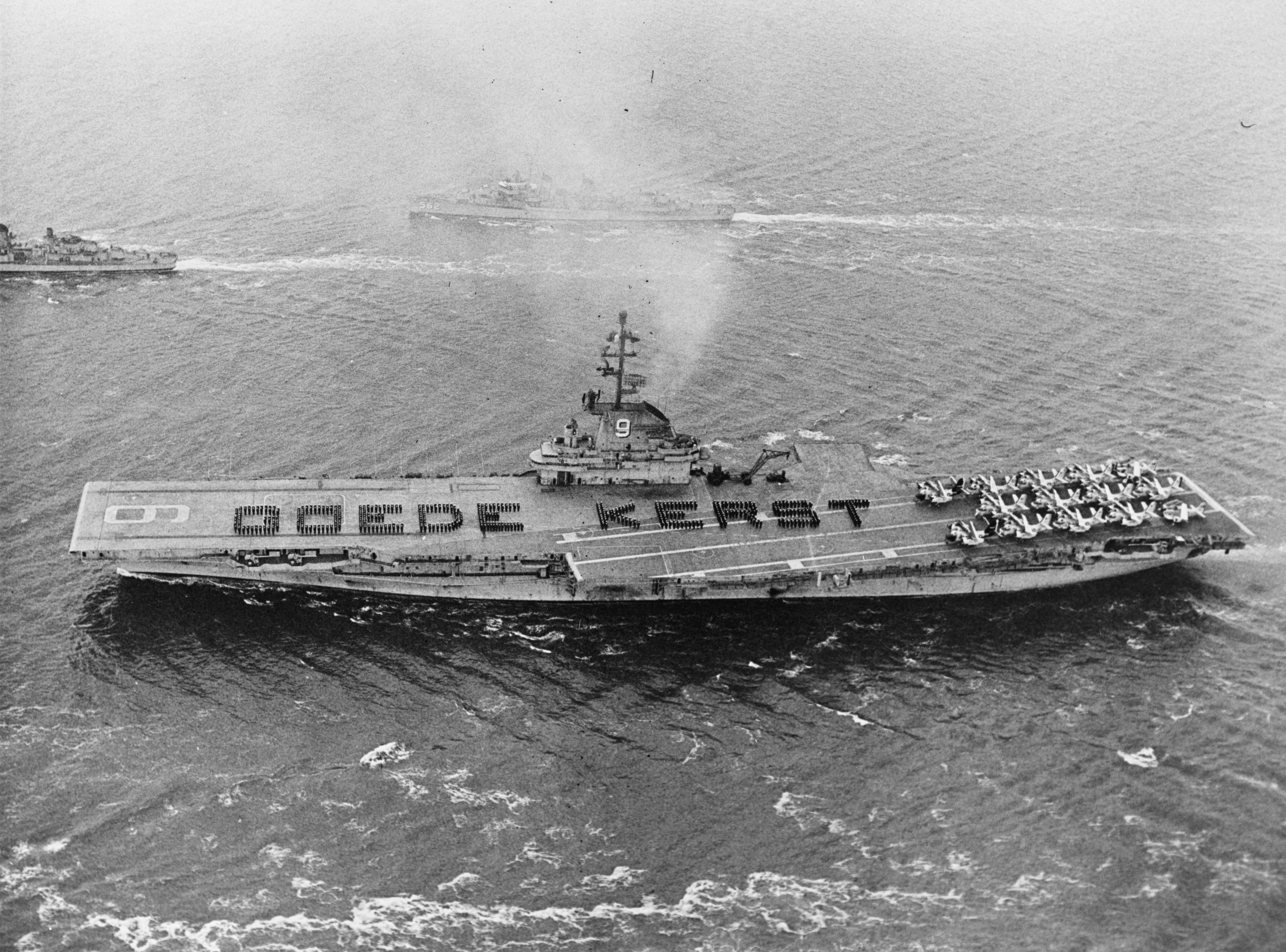 The U.S. aircraft carrier USS Essex (CVS-9) off Rotterdam, the Netherlands, in December 1961. The destroyer in the center background is USS Robinson (DD-562). Crewmen on the deck are spelling out "Merry Christmas" in Dutch.